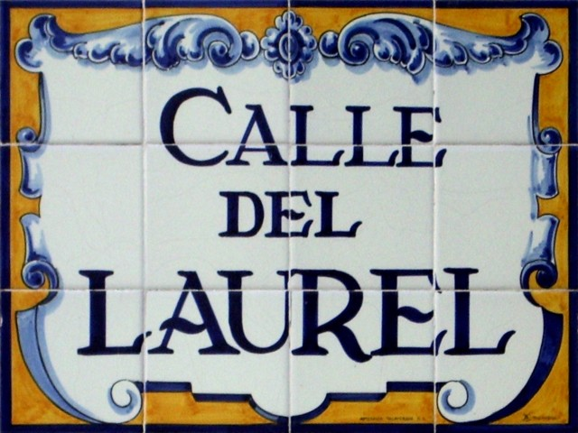 Panel which shows the name of the street where it is, Calle (del) Laurel, famous tapas place in Logroño, La Rioja (Spain)